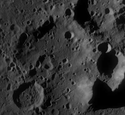 LROC WAC image (No. M118300820ME)